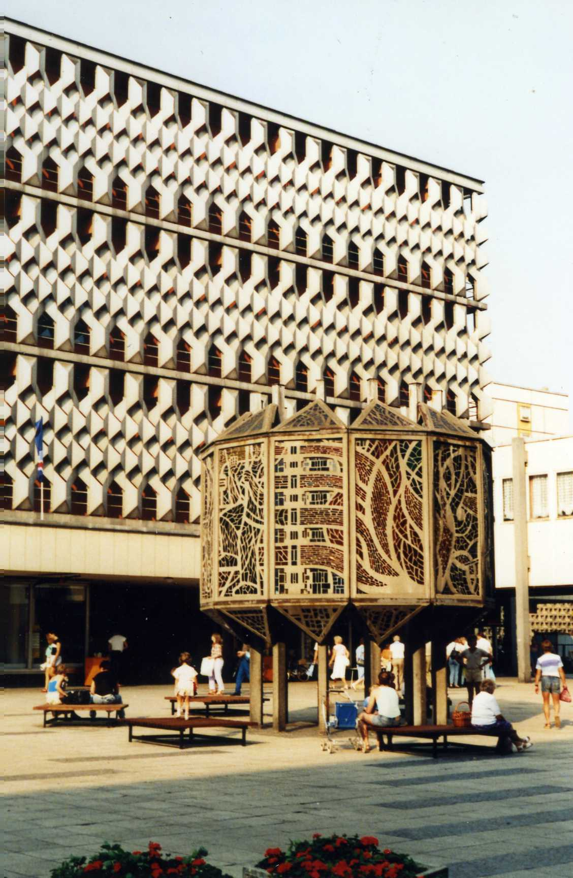 In the pedestrianised Karl-Marx-Strasse, with trams running down the centre